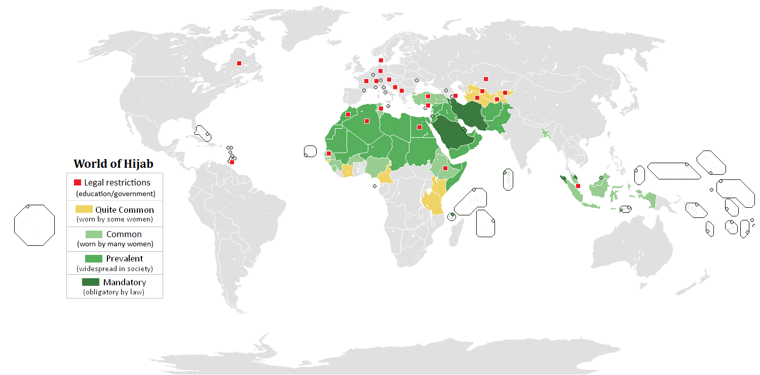 Map showing prevalence of Hijab wear across the world and indicating countries where there are restrictions on wearing it.